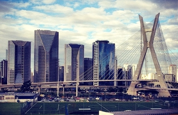 São Paulo, Brazil